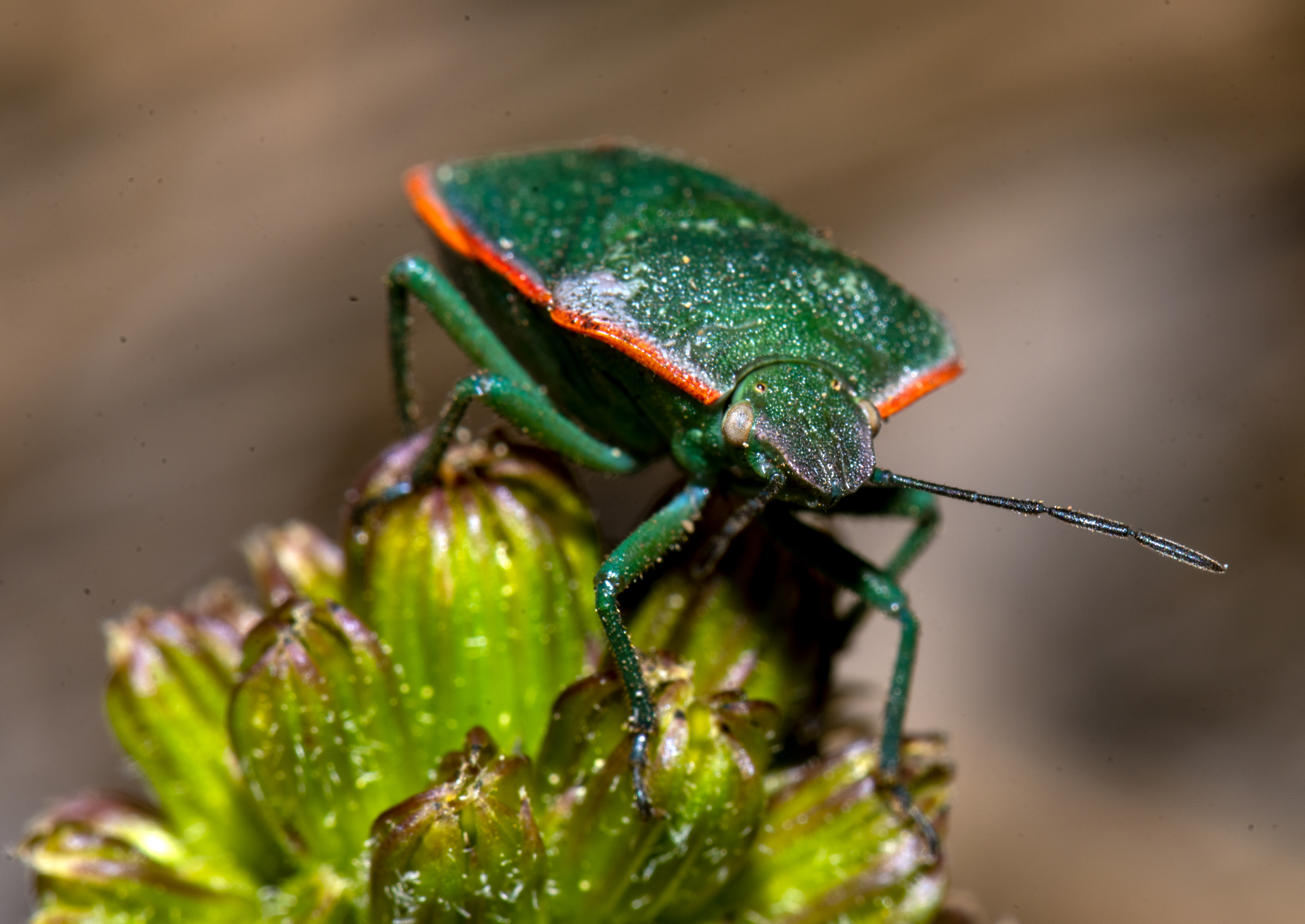 Chlorochroa sayi from Modoc National Forest, California, USA.